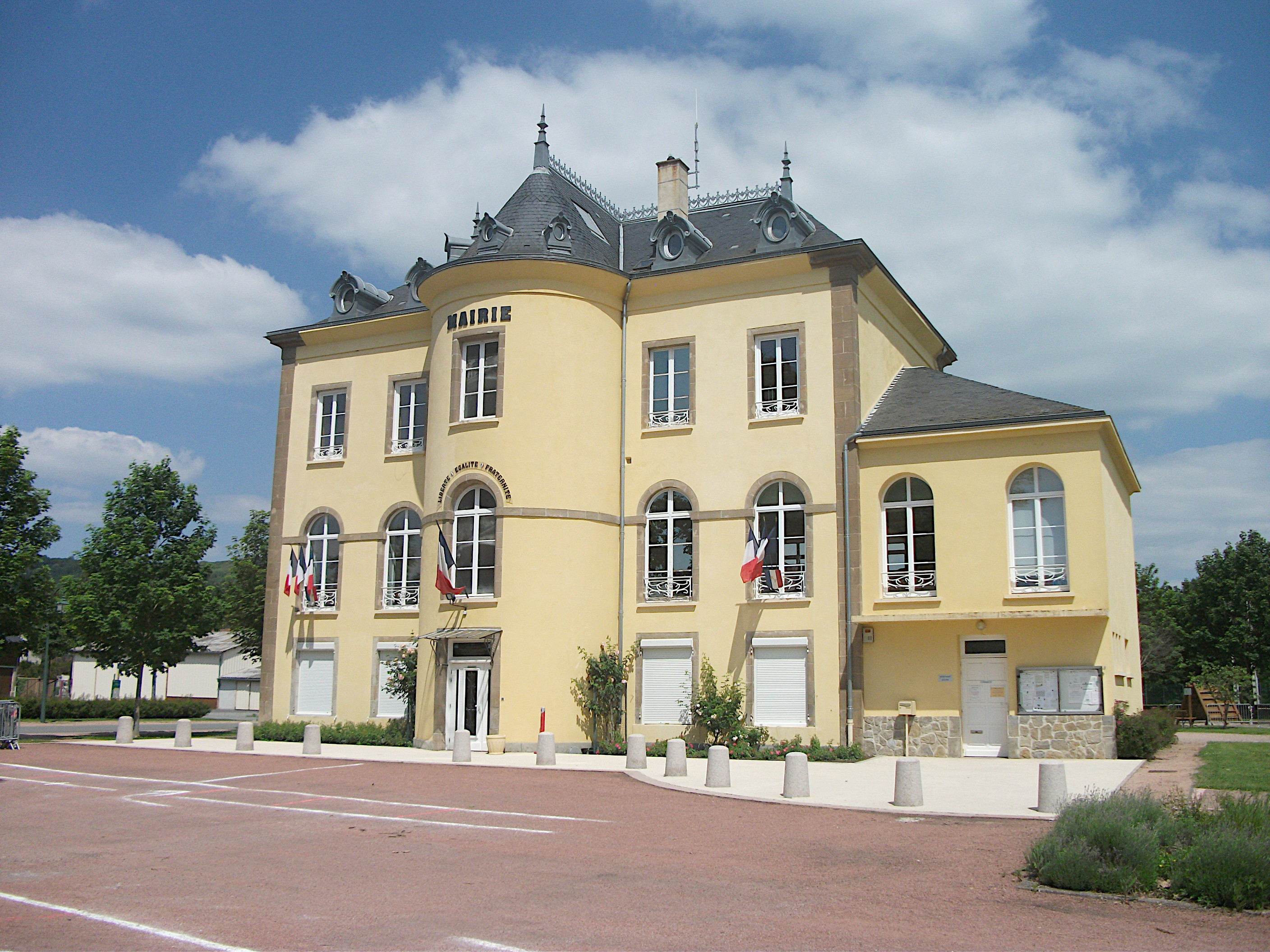 Town hall of Hauterive, Allier, Auvergne-Rhône-Alpes, France. [20114]